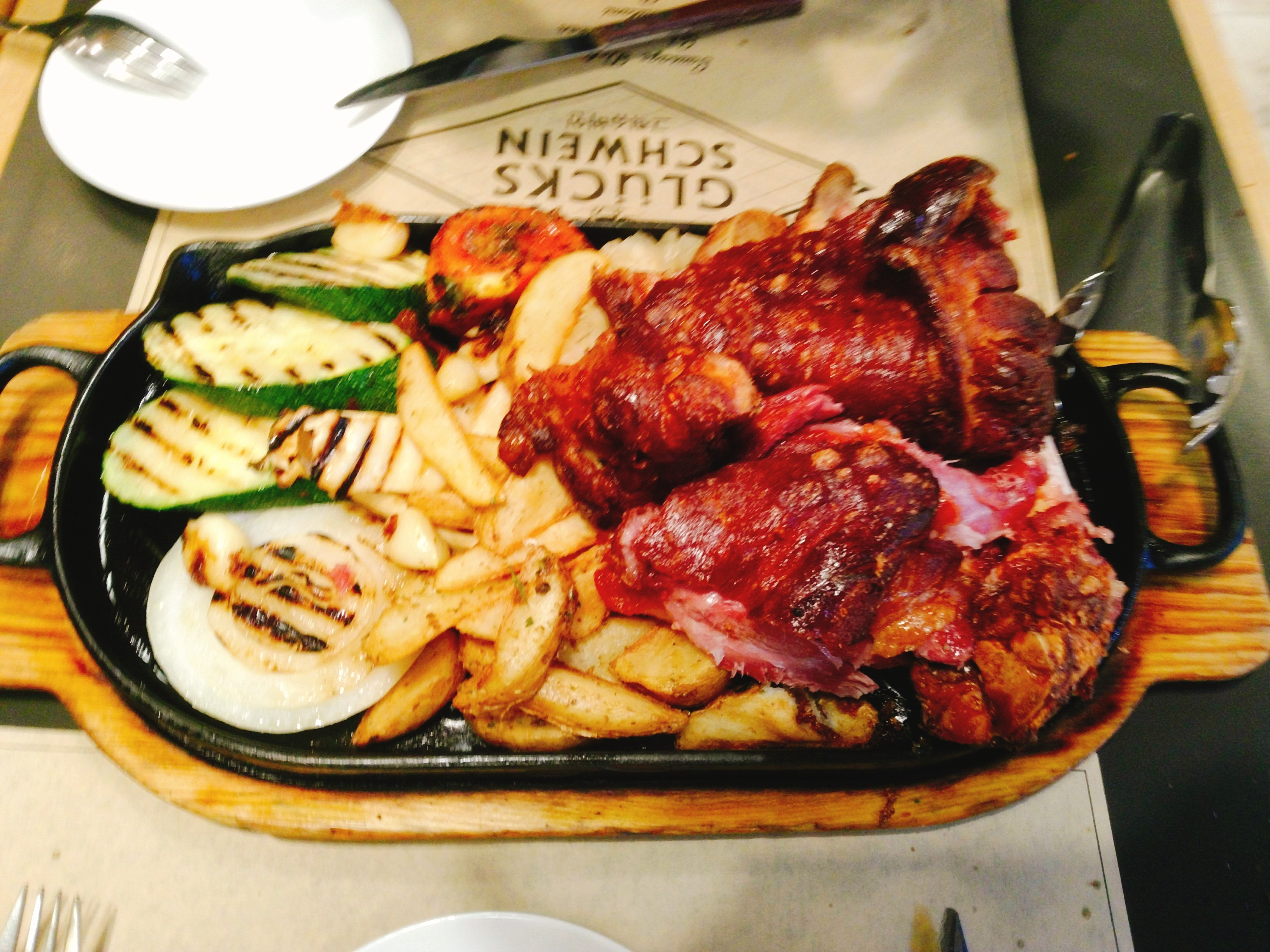 Schweinshaxe